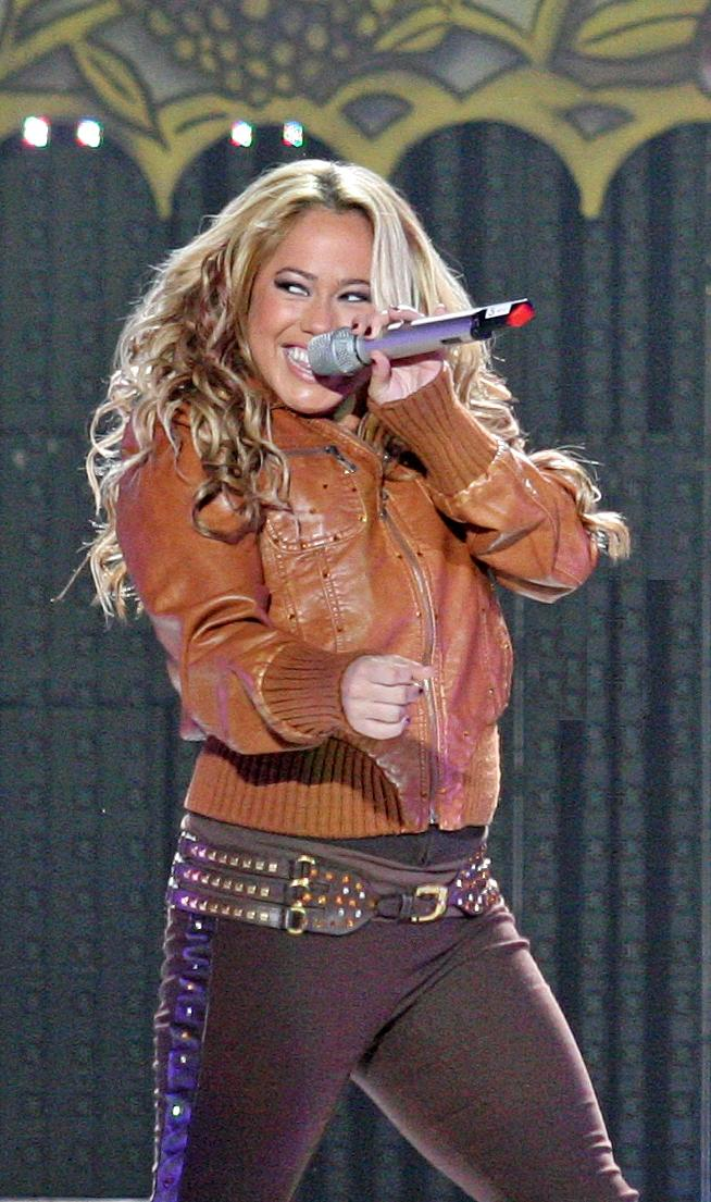 Sabrina Bryan during the "One World" Tour.